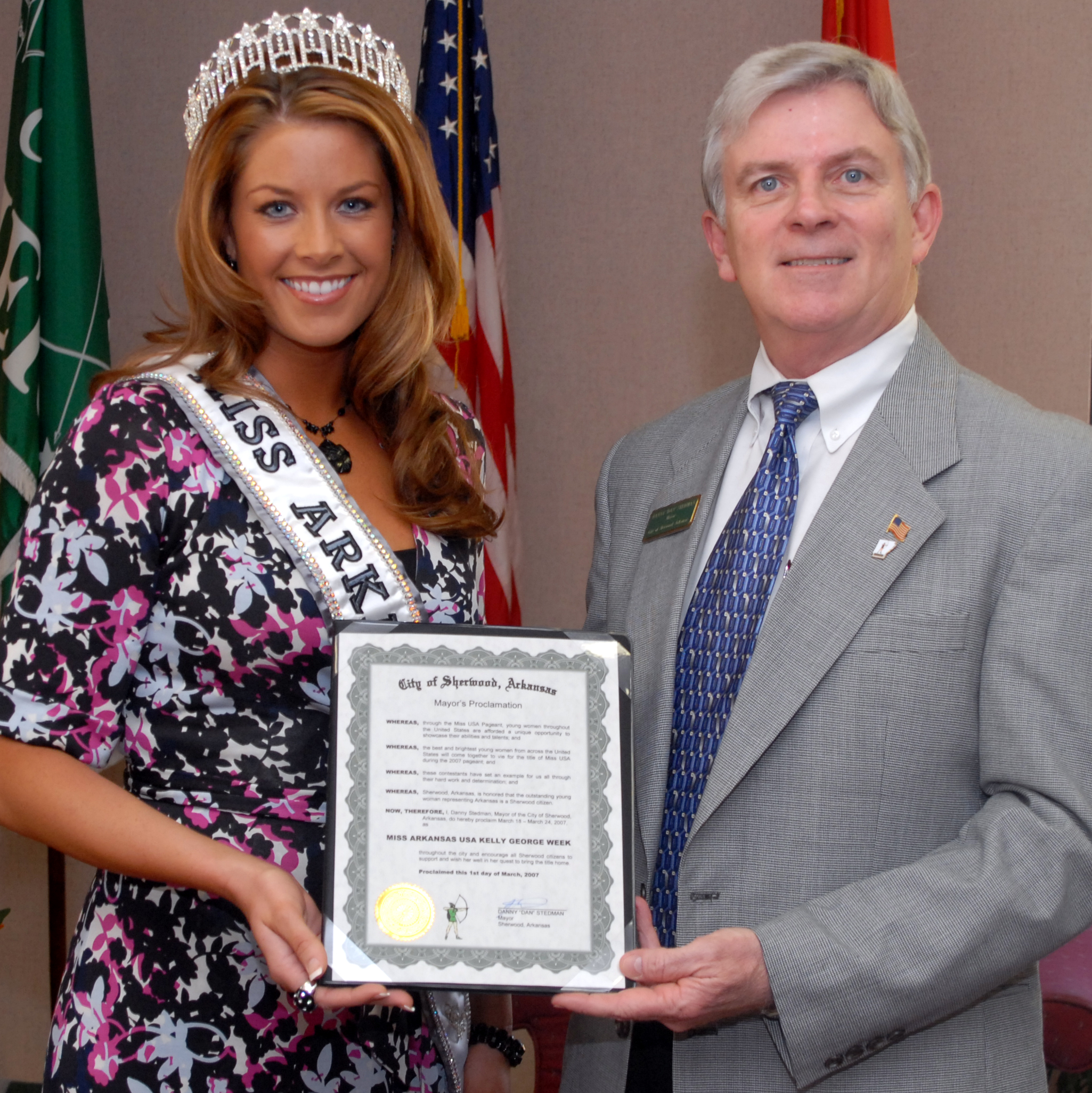 Kelly George, Miss Arkansas USA 2007, receives a proclamation from the Mayor of Sherwood, Arkansas.